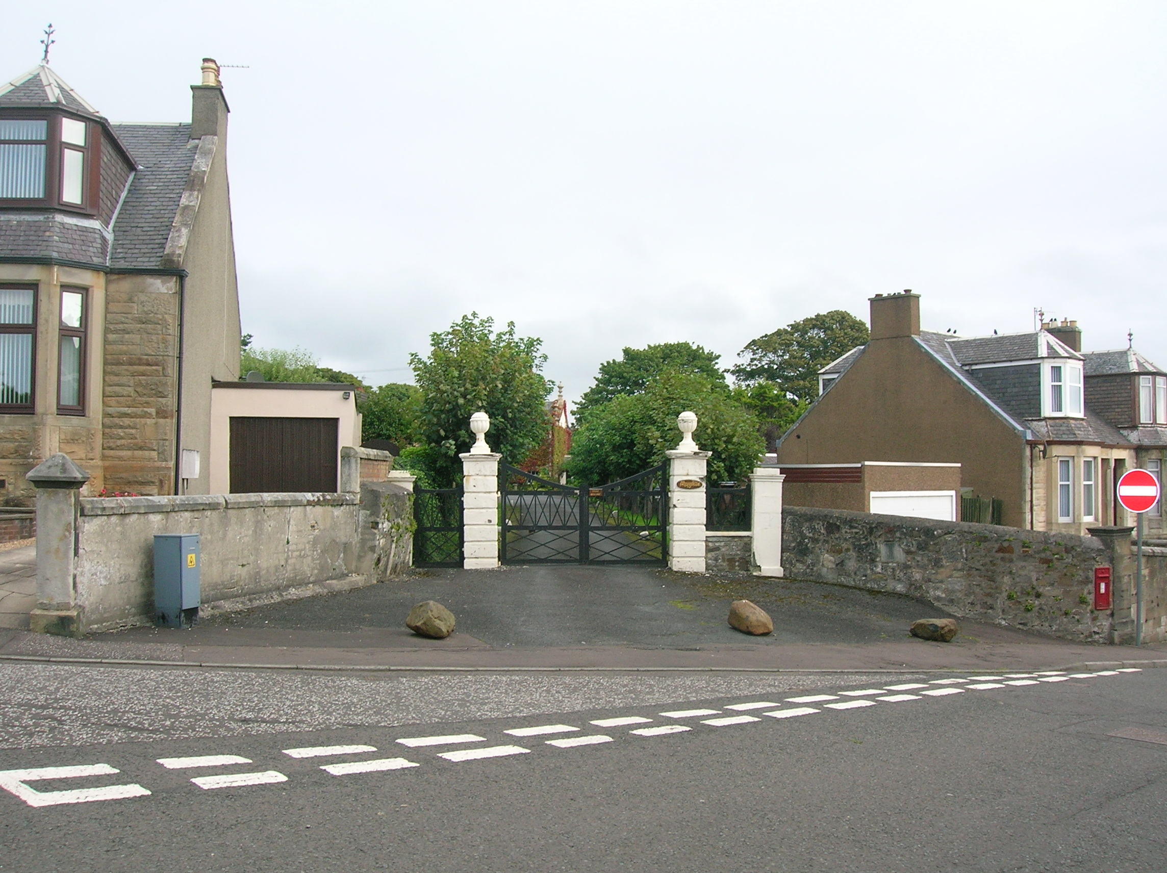 The entrance to Mayville House, Stevenston, North Ayrshire, Scotland. Home of Robert Burns' Bonnie Lesley.